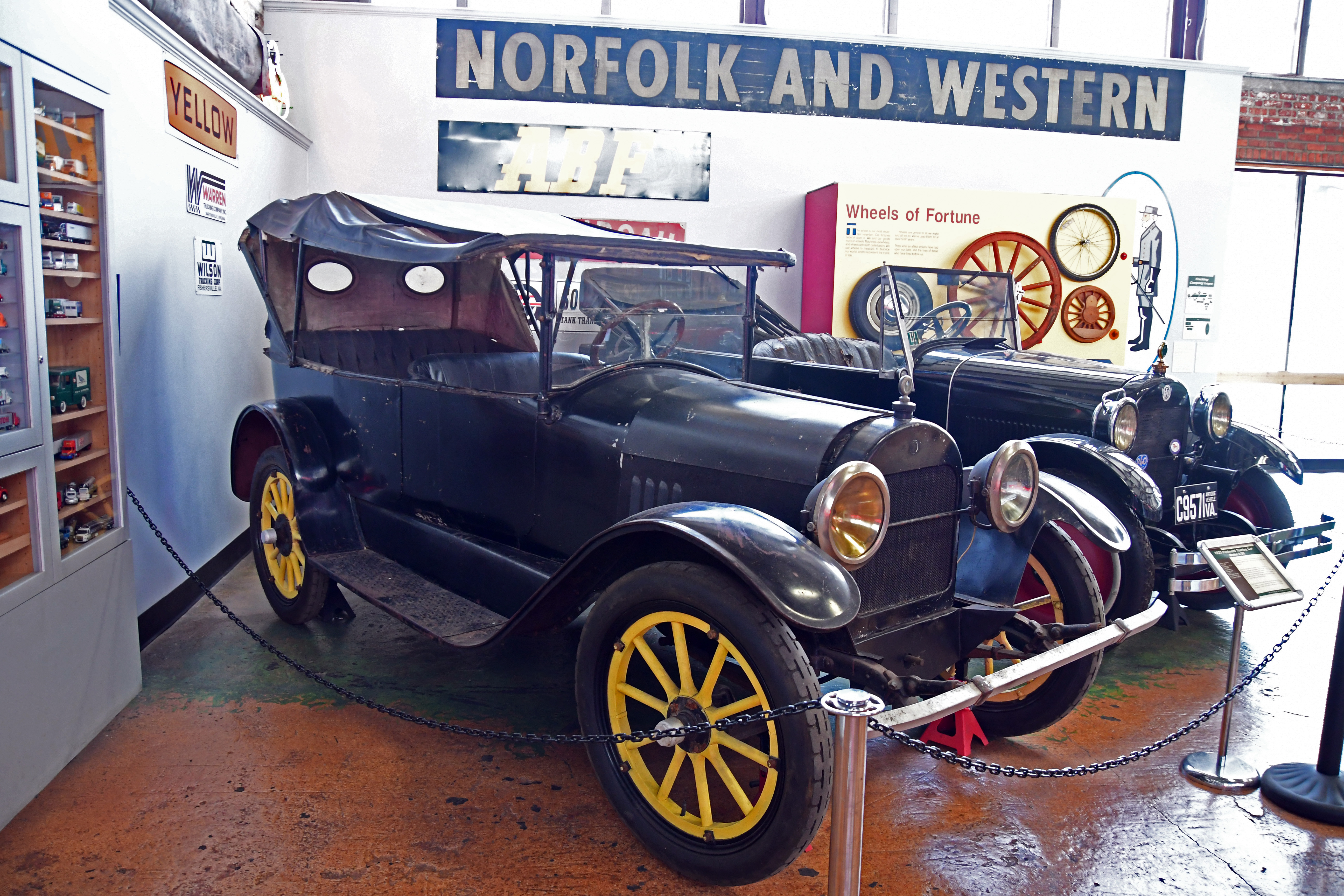 1923 Piedmont 4-30 Touring Car, one of only three Piedmonts known to exist. Piedmont Motor is the only automobile company ever chartered in the State of Virginia. This vehicle is part of the Road Collection of the Virginia Museum of Transportation in Roanoke, Virginia.